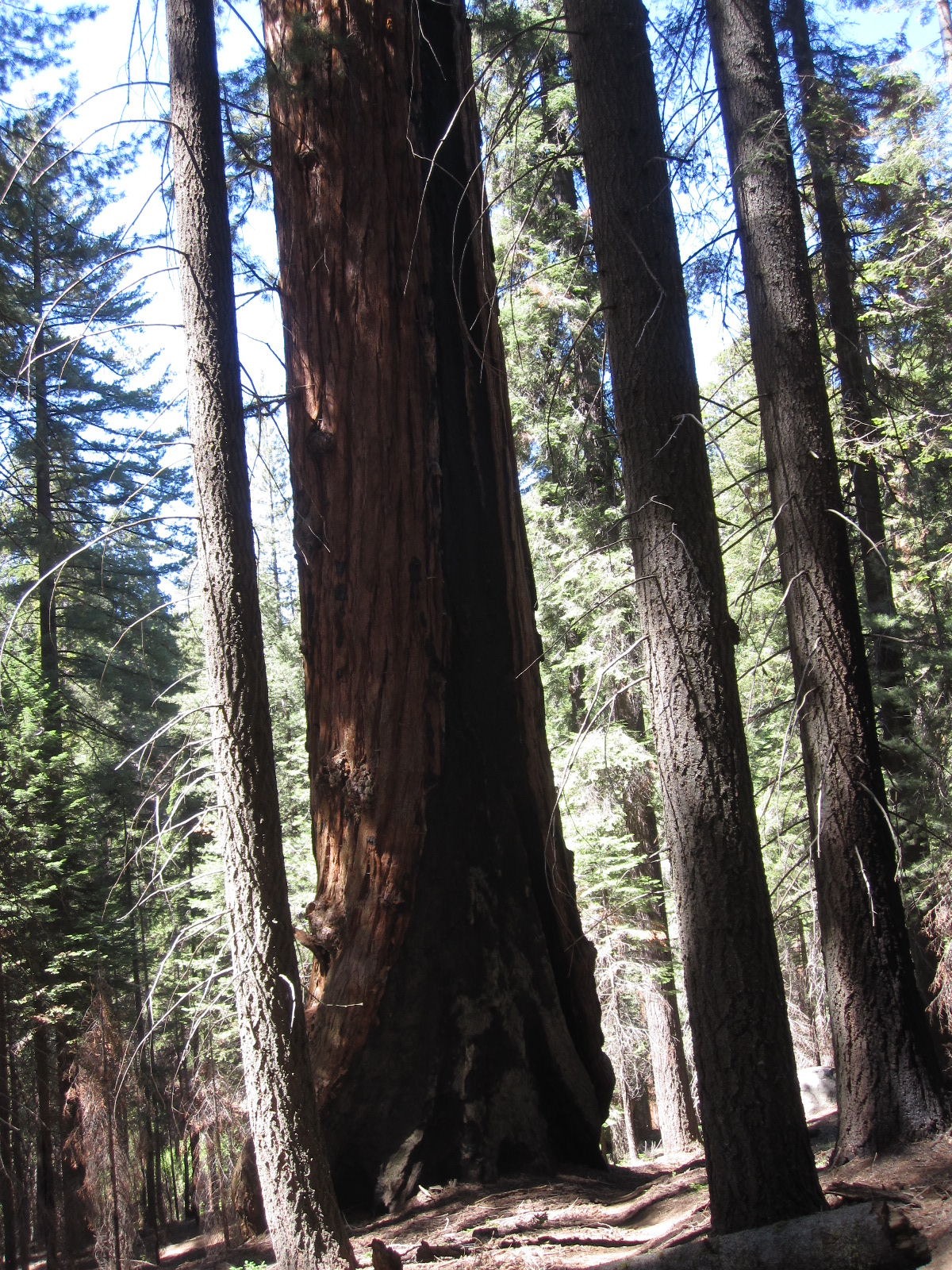 Hart Tree — a named giant sequoia (Sequoiadendron giganteum) in the Redwood Mountain Grove, Kings Canyon National Park, California.